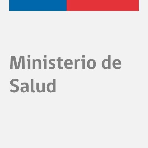 Institutional logo for social networks of the Government of Chile.